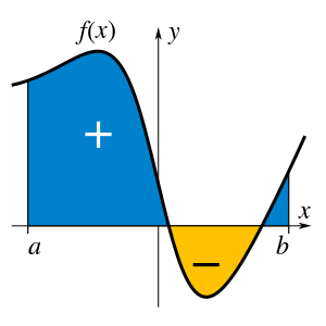 Integrali i f(x) nga a në b është syprina sipër aksit x poshtë lakores y = f(x), minus syprinën poshtë aksit x dhe sipër lakores, për x në intervalin [a,b].